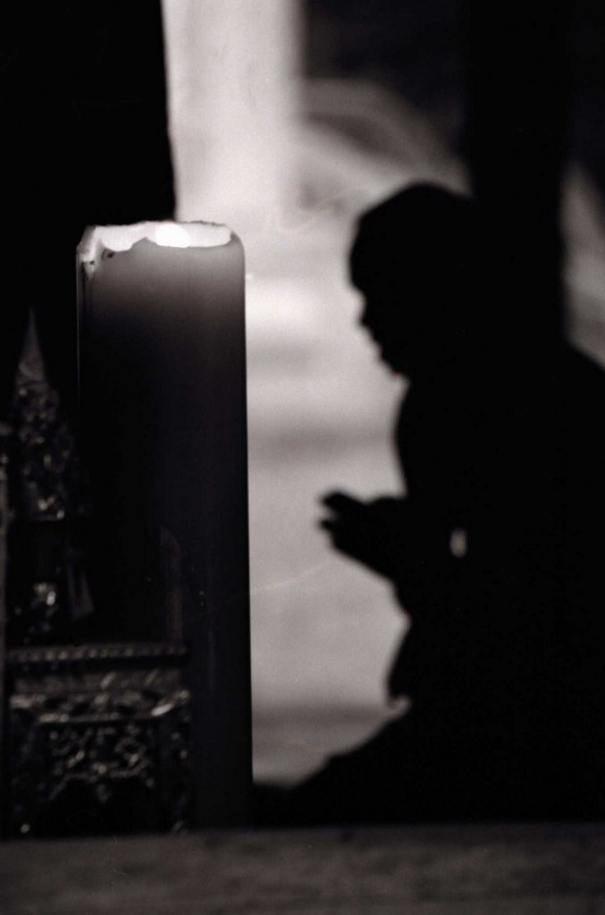 A Buddhist Monk chats evening prayers inside a monastery located near the town of Kantharalak, Thailand (January 2005).